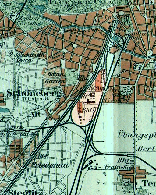 Position plan of the "Rote Insel", Berlin-Schöneberg, 1894